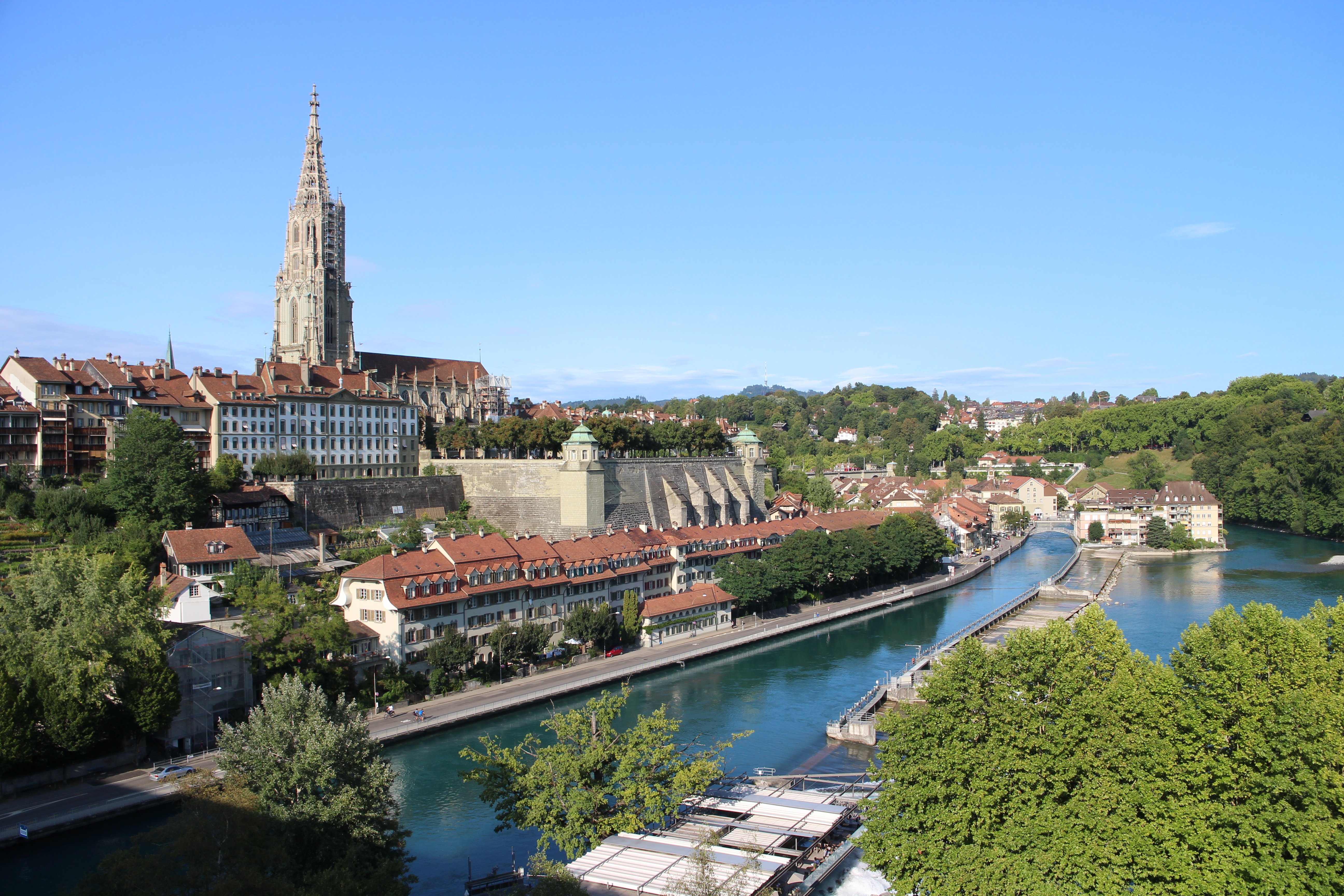 View from Kirchenfeldbrücke